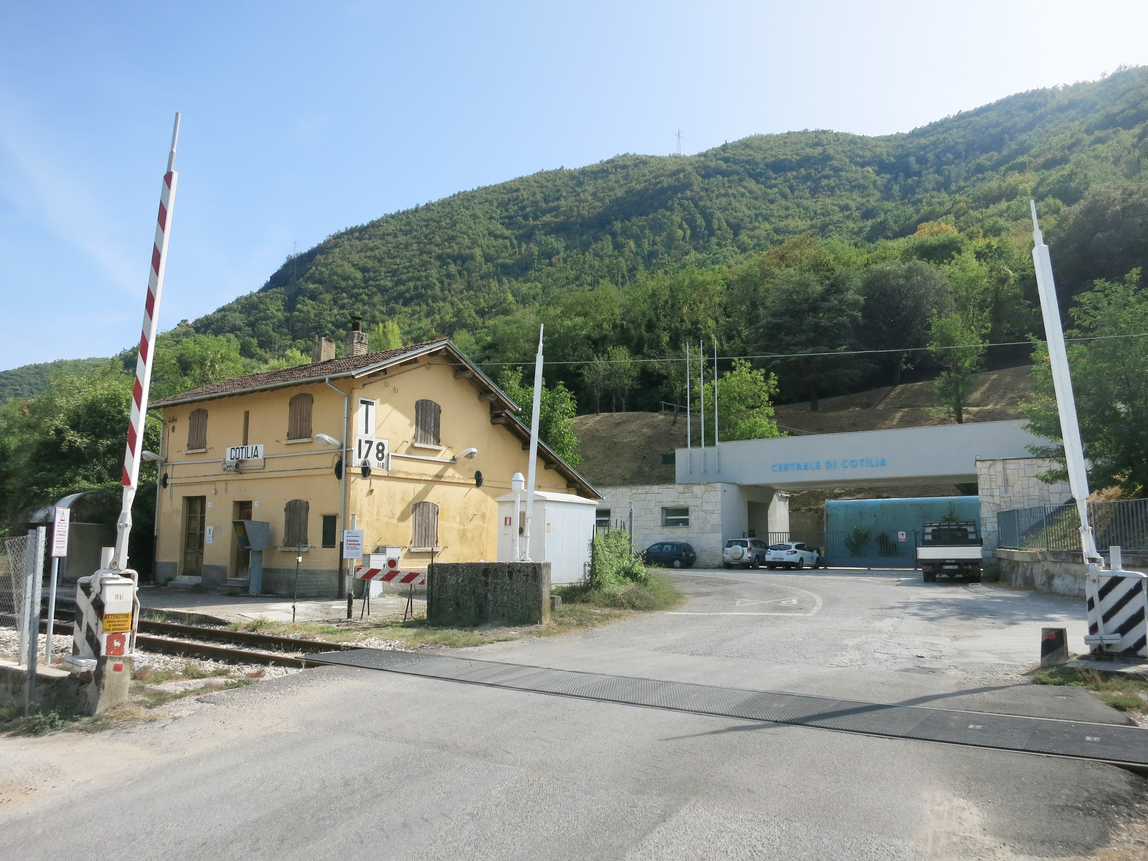 The decommissioned Cotilia railway stop (province of Rieti, Lazio, Italy), on the Terni-Rieti-L'Aquila-Sulmona line.